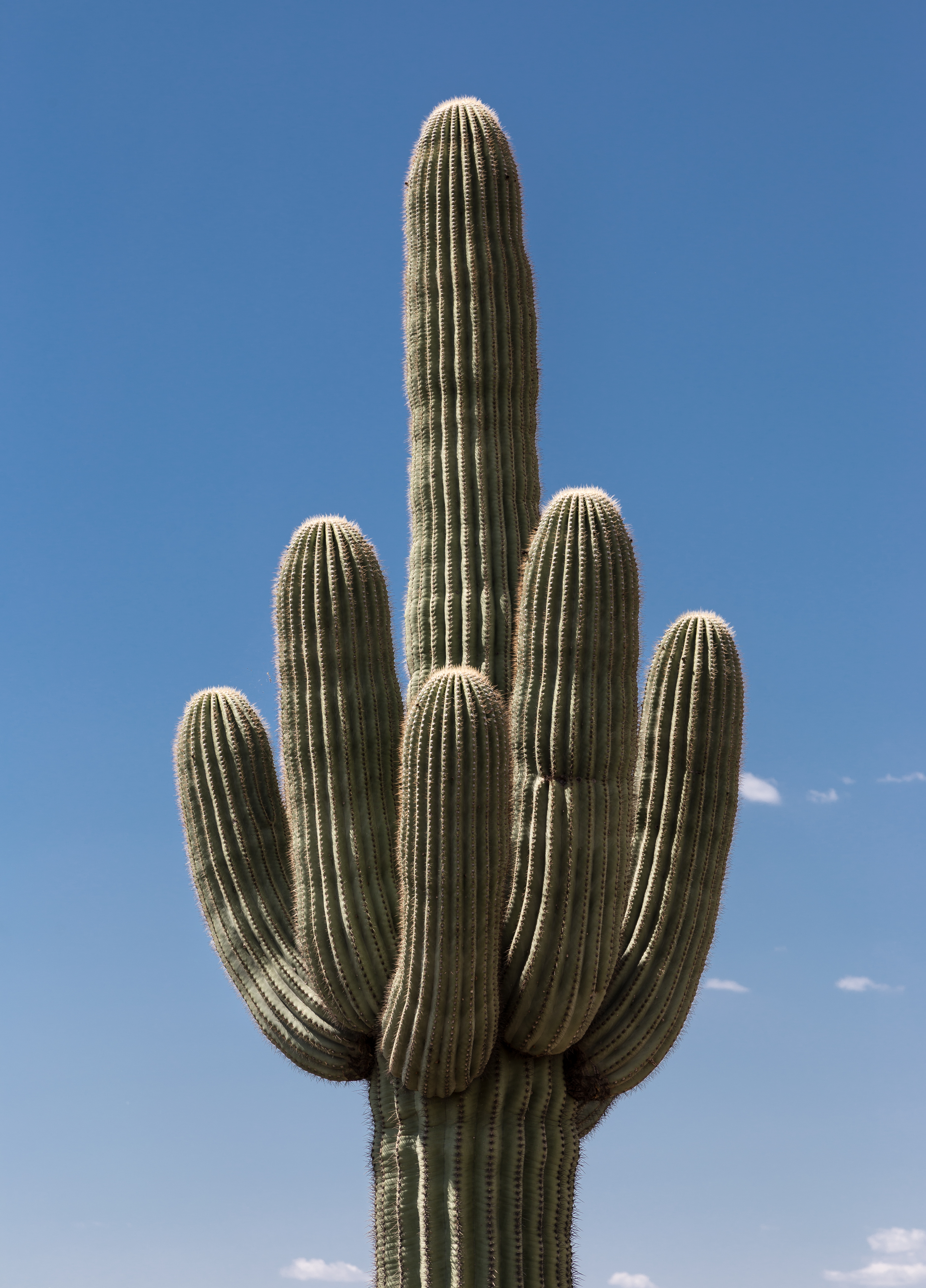 Carnegiea gigantea or Sahuaro or Saguaro, in the Sonoran desert